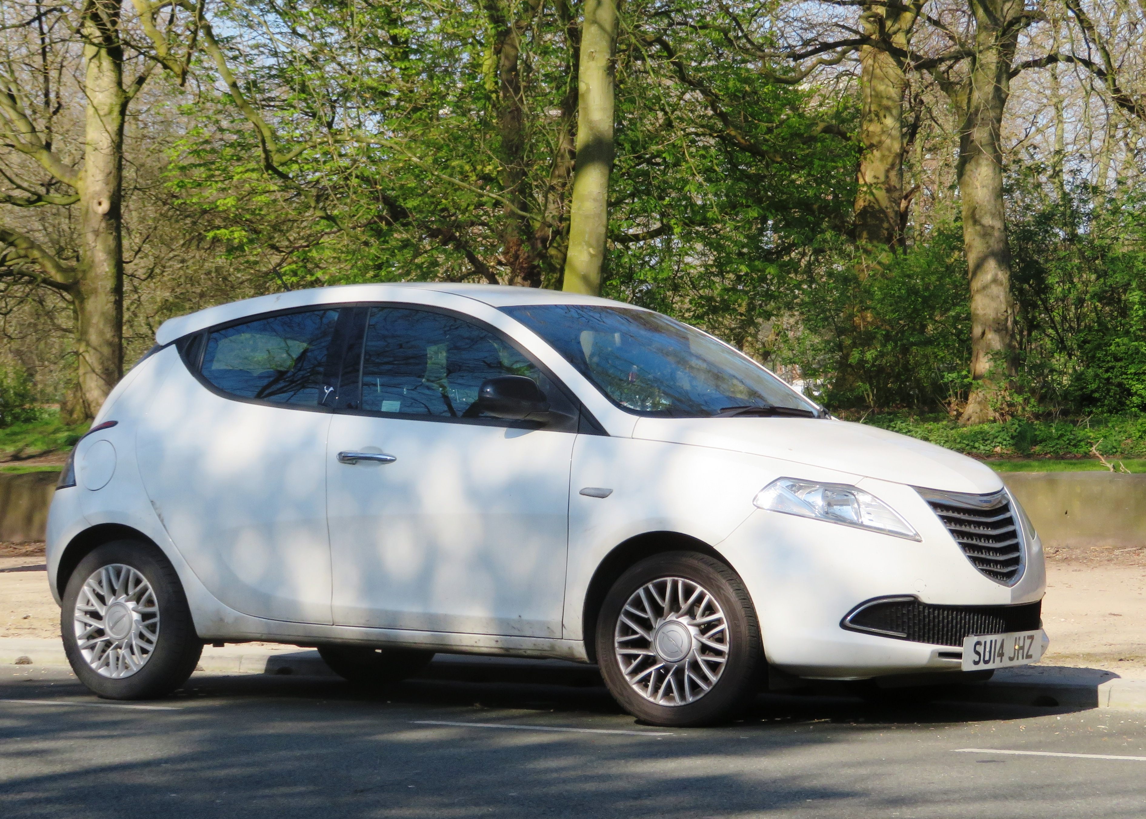 Lanca Musa badged as Chrysler for UK market